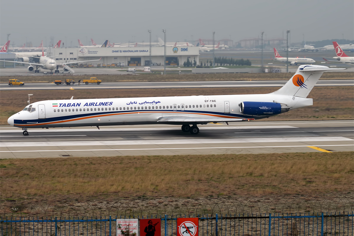 Taban Airlines, EP-TBE, McDonnell Douglas MD-88